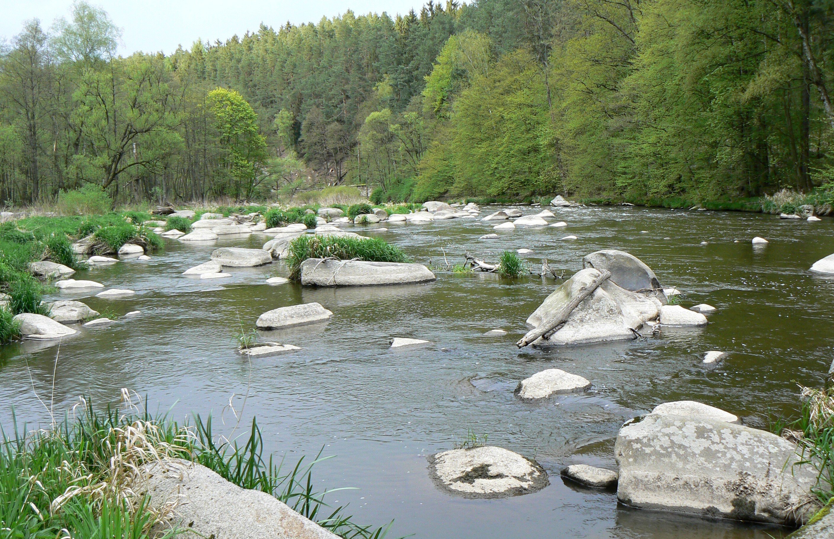 Nature Reserve Stvořidla along River Sázava, Havlíčkův Brod District